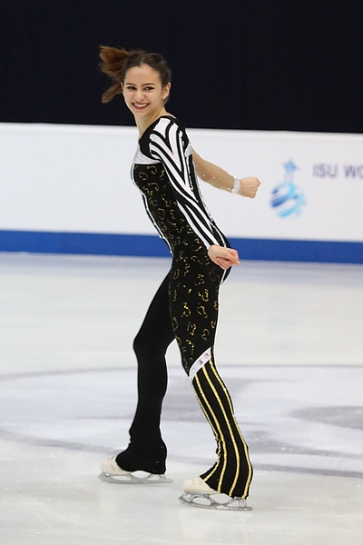 Güzide Irmak Bayır at the 2019 Junior World Championships - SP